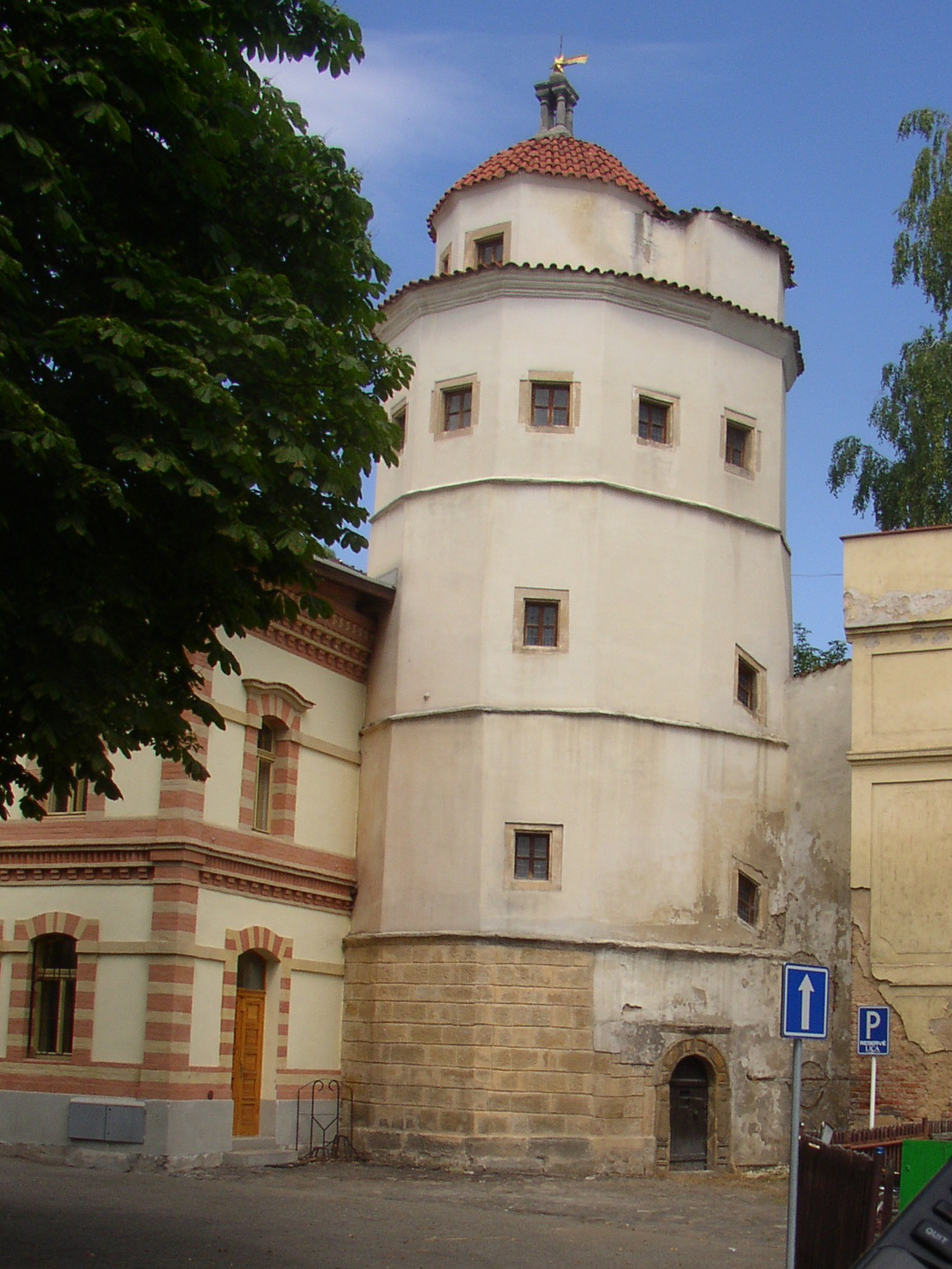 Turkish Tower, an old watertower from 1597 in Nymburk, Central Bohemian Region, Czech Republic.